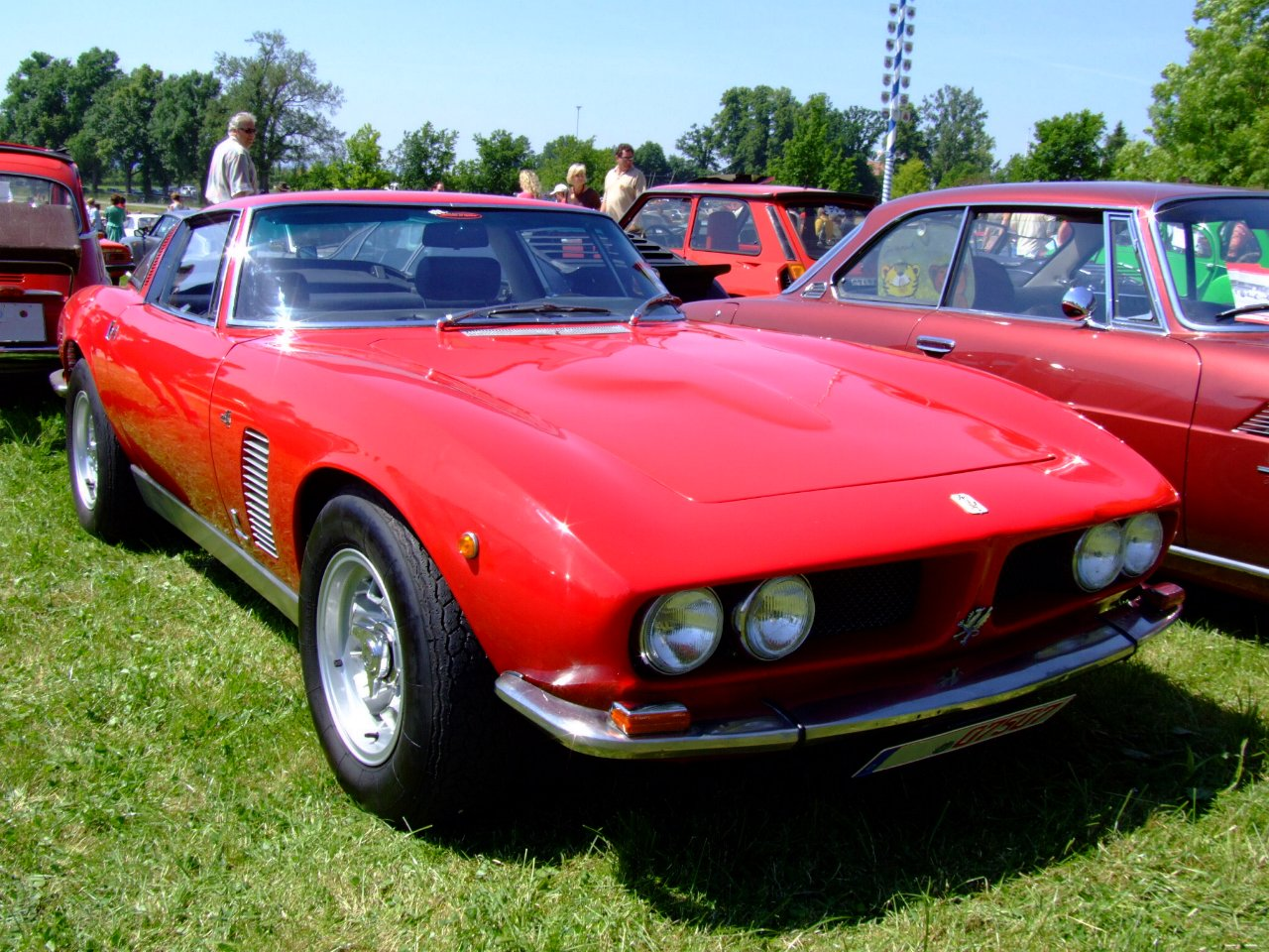 Iso Grifo A3 L